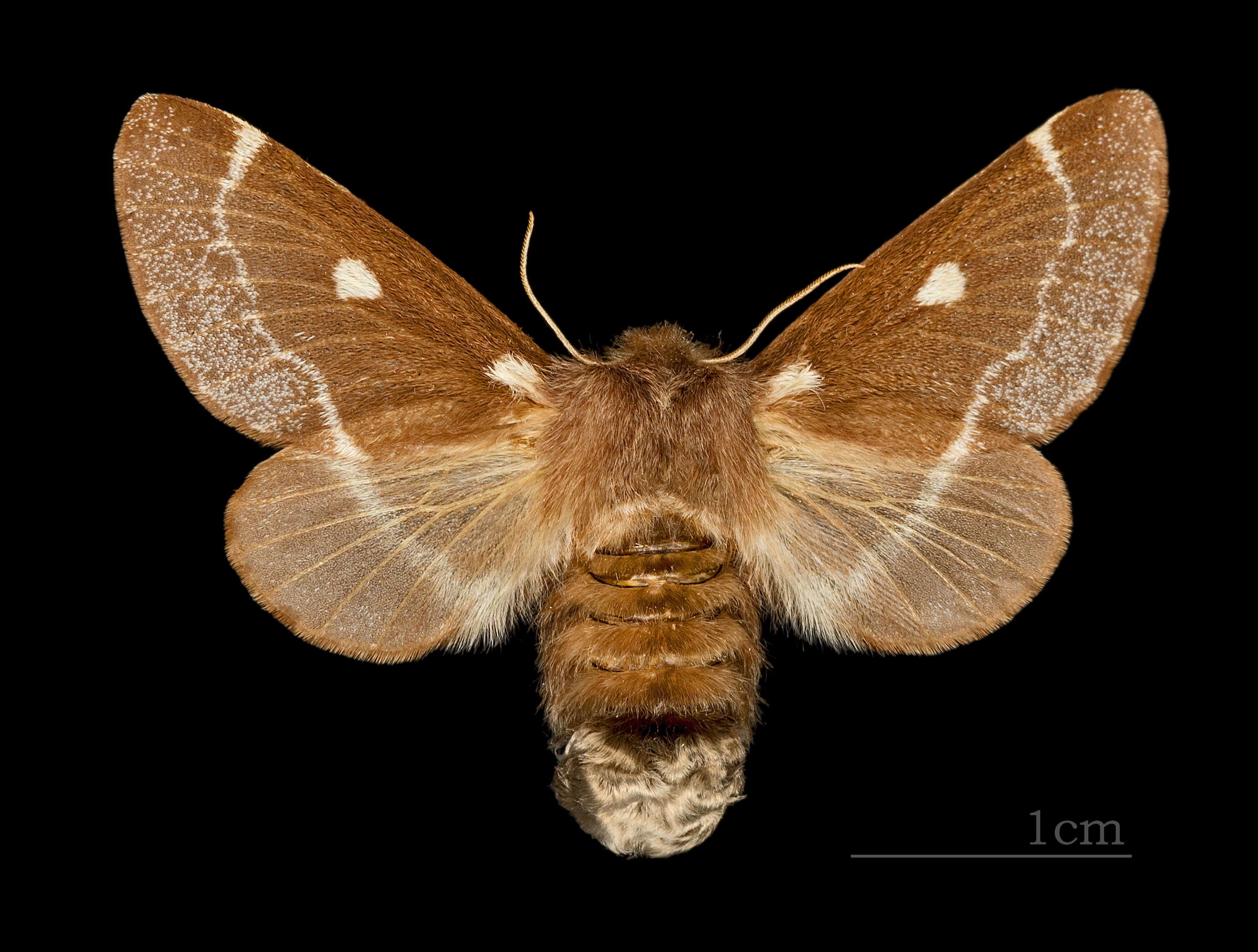 Small Eggar - Dorsal side